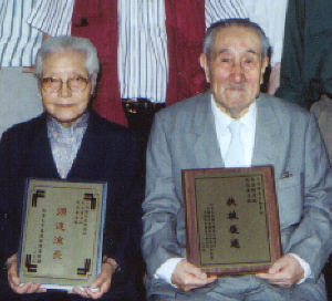 Wu style T'ai Chi Ch'uan Masters Wu Ying-hua (L) and Ma Yueh-liang (R)